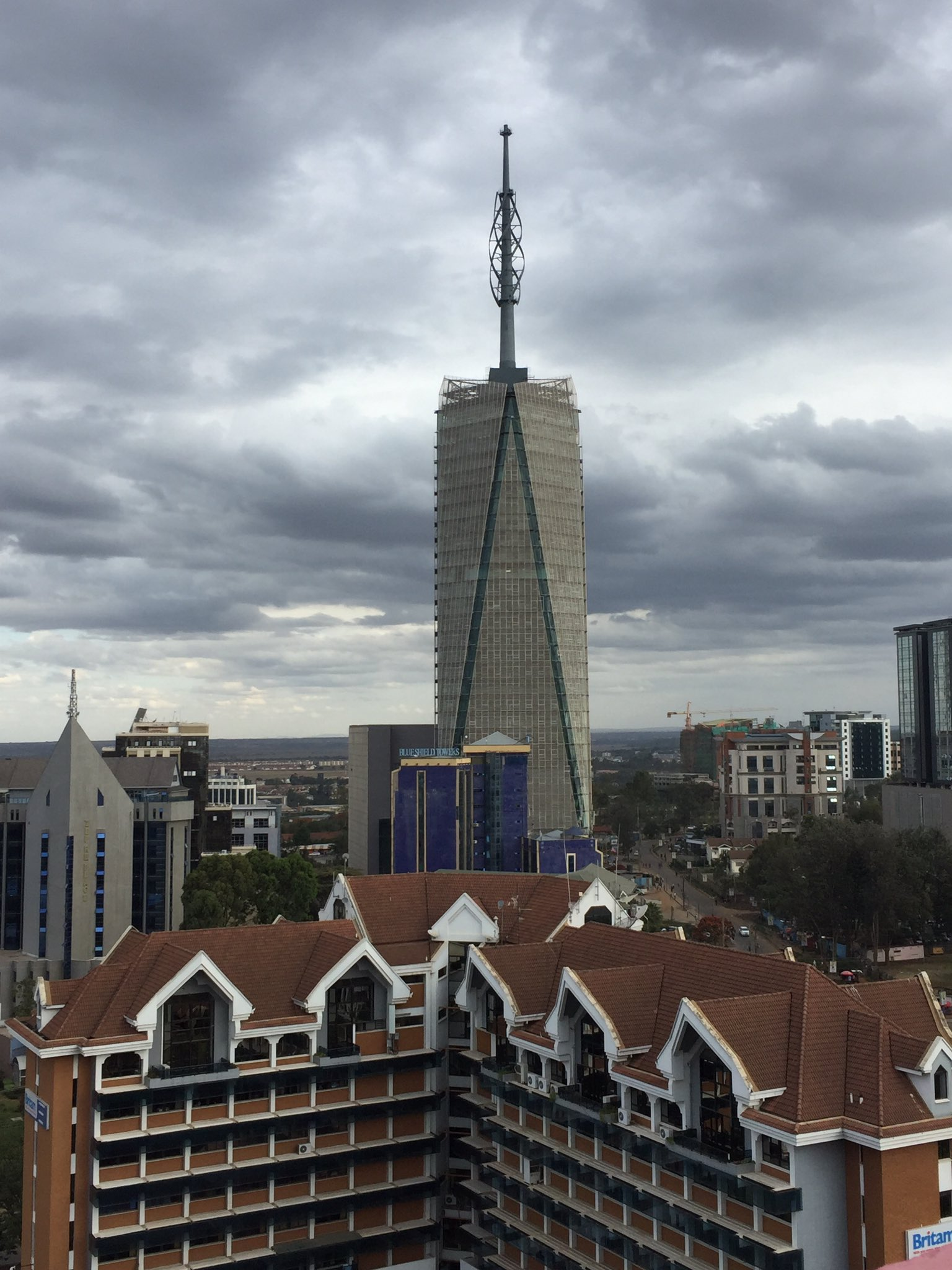 Image of Britam Towers as seen during the day